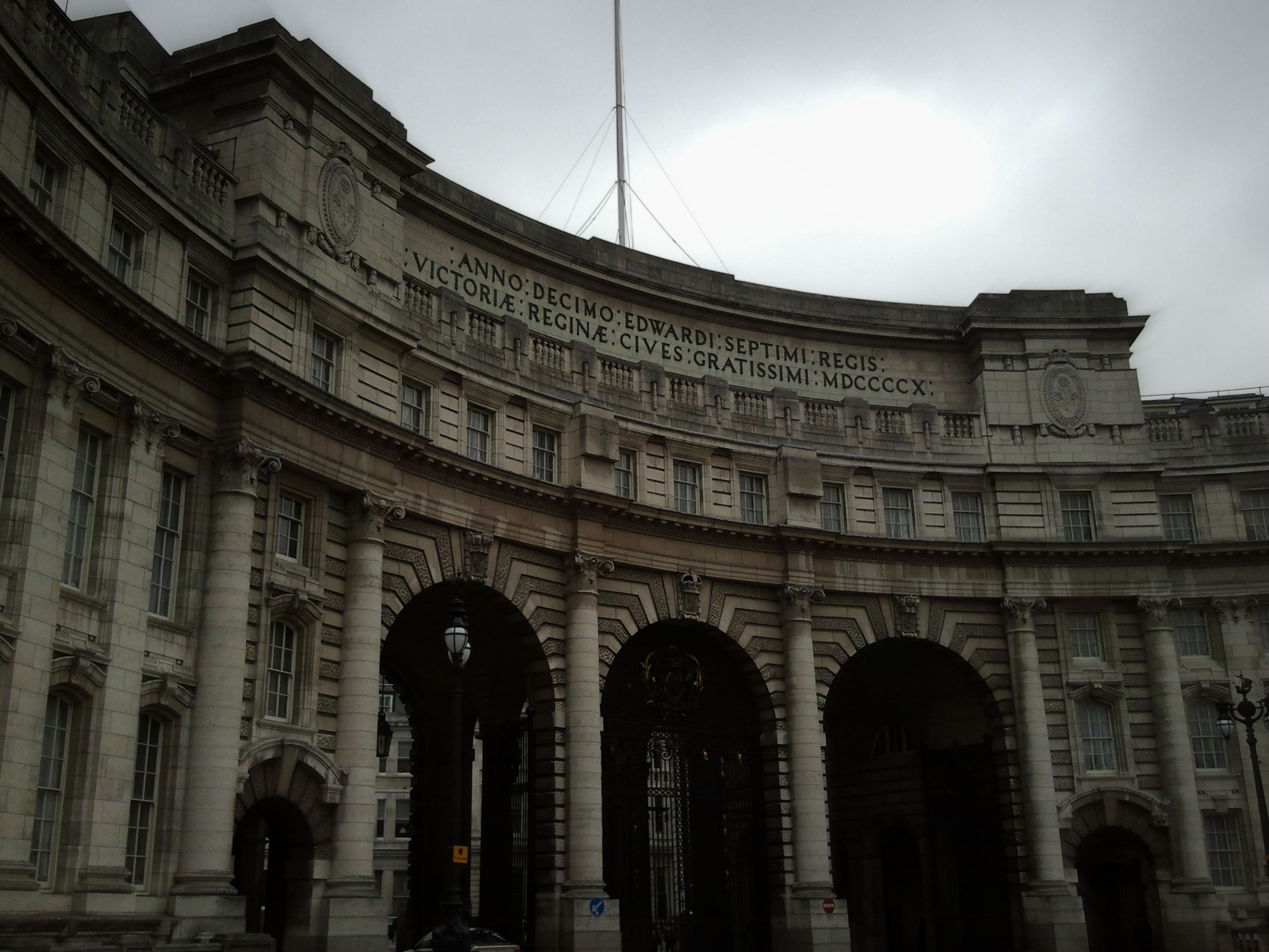 Admiralty Arch in London.